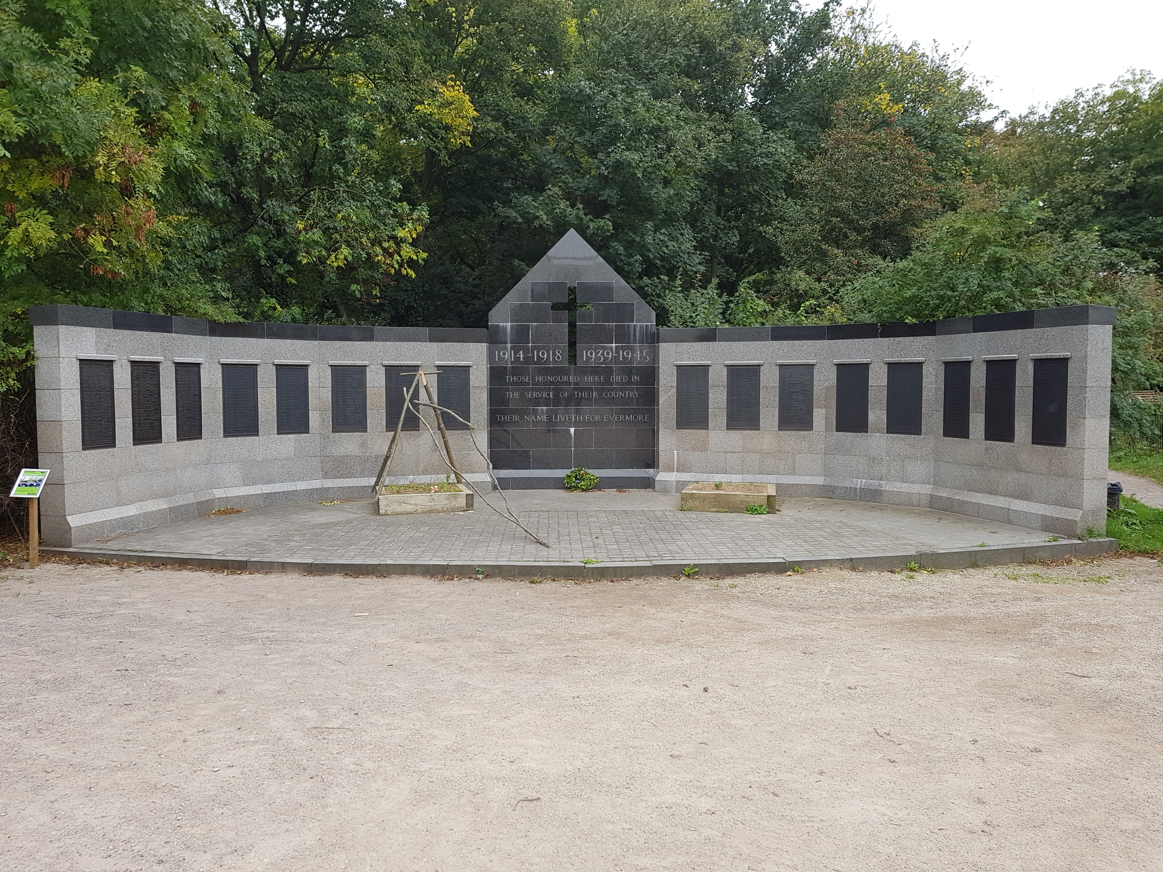 Tower Hamlets Cemetery (officially Tower Hamlets Cemetery Park), London